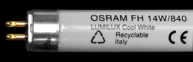 Zoom on writing on a flurorescent tube. The number 840 indicate that the IRC is in 80-90 and that the colour of the lamp correspond to 4000k (white)